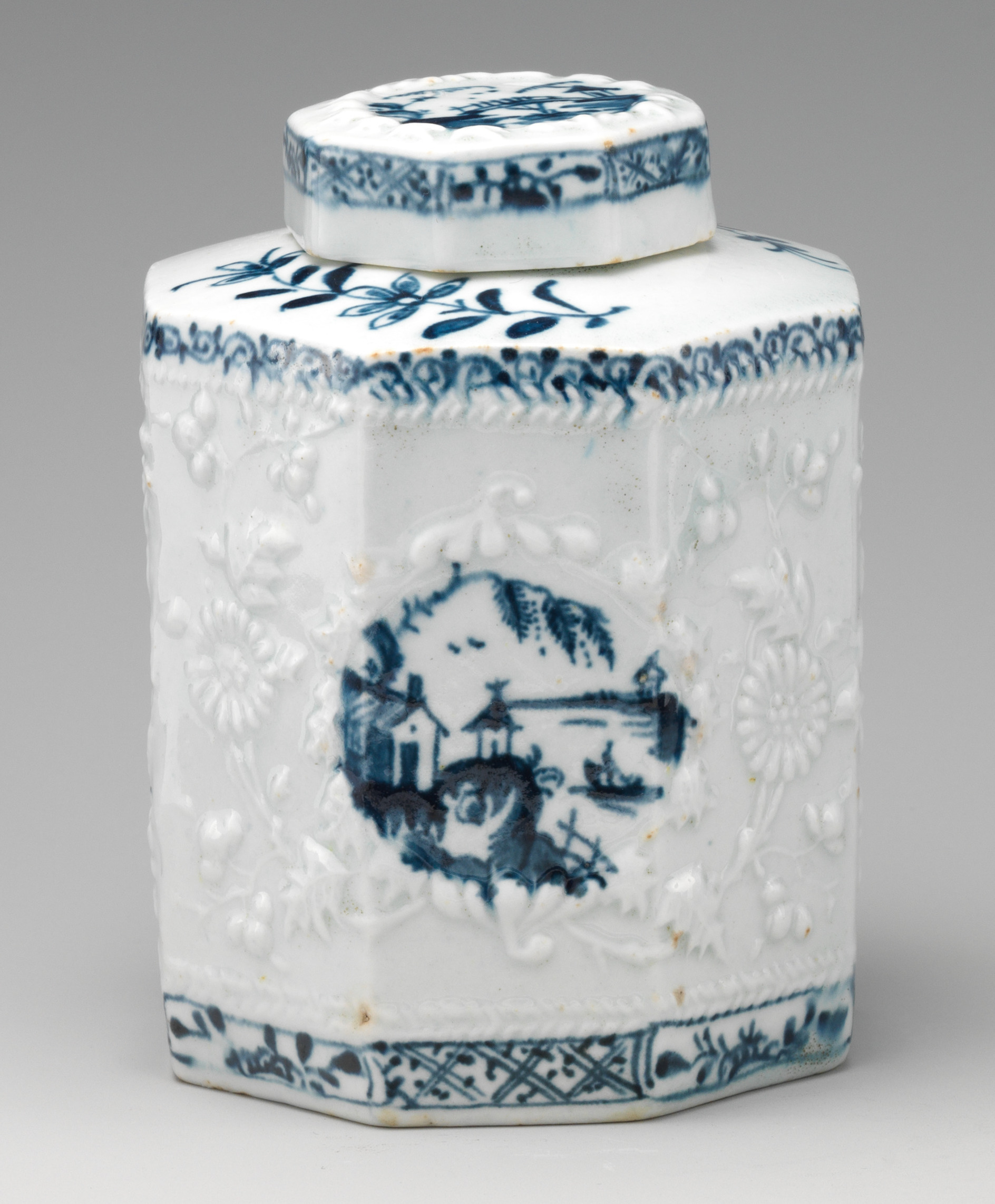 British, Lowestoft; Tea caddy; Ceramics-Porcelain